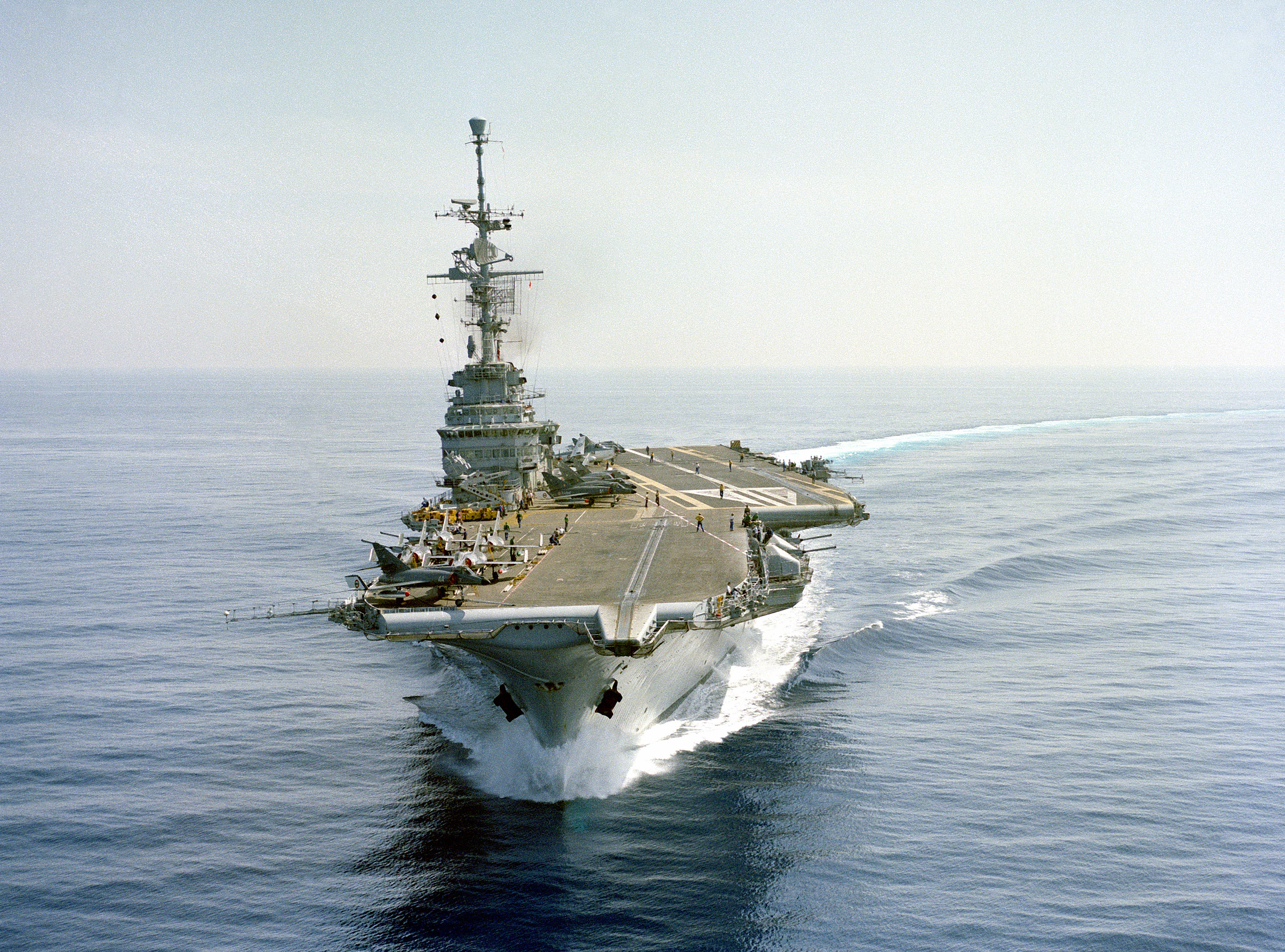 A bow view of the French CLEMENCEAU class aircraft carrier FOCH (R-99) underway during exercise Distant Drum.